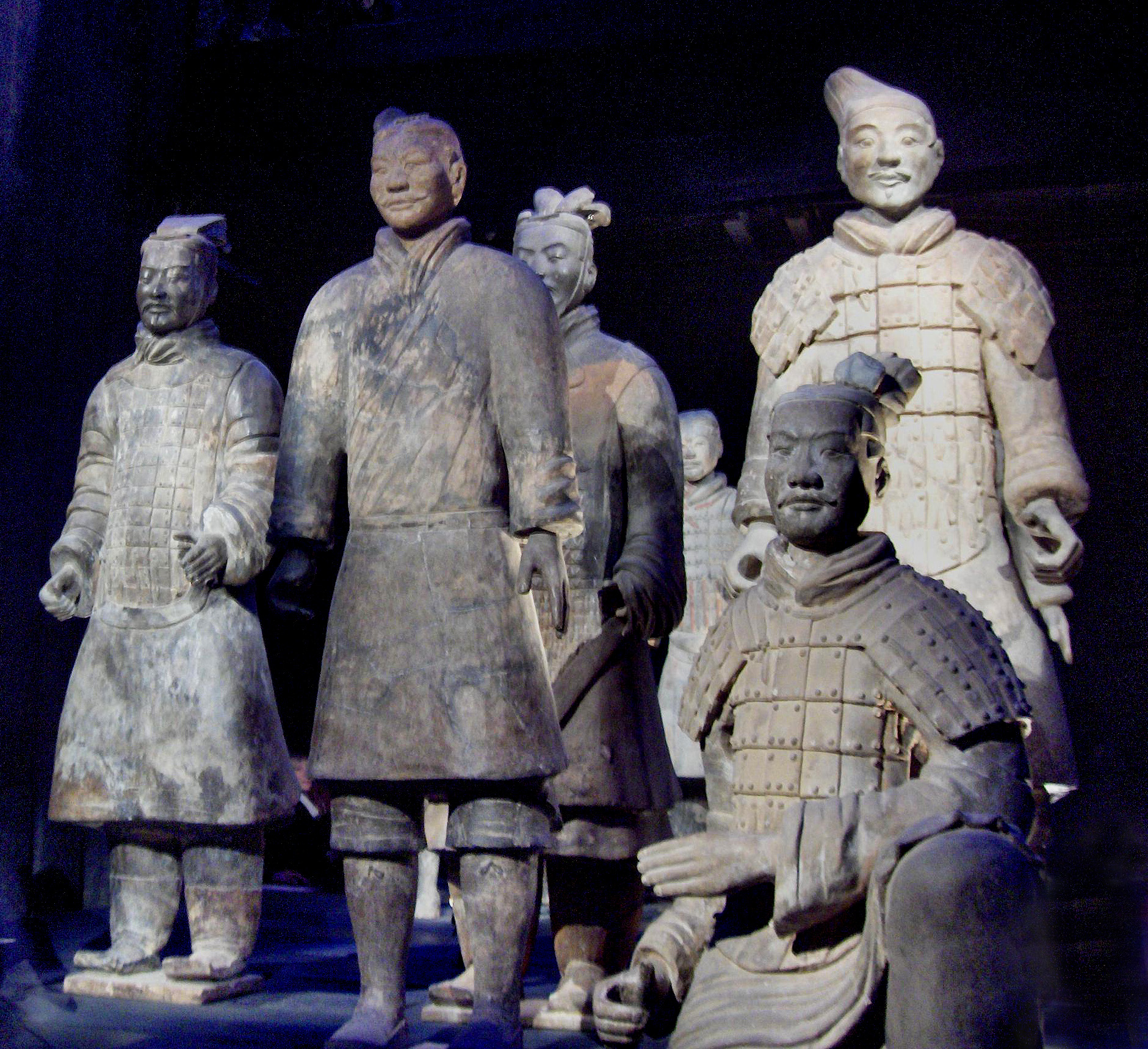 Group of terracotta soldiers; Lintong pit 1, Qin-dynasty